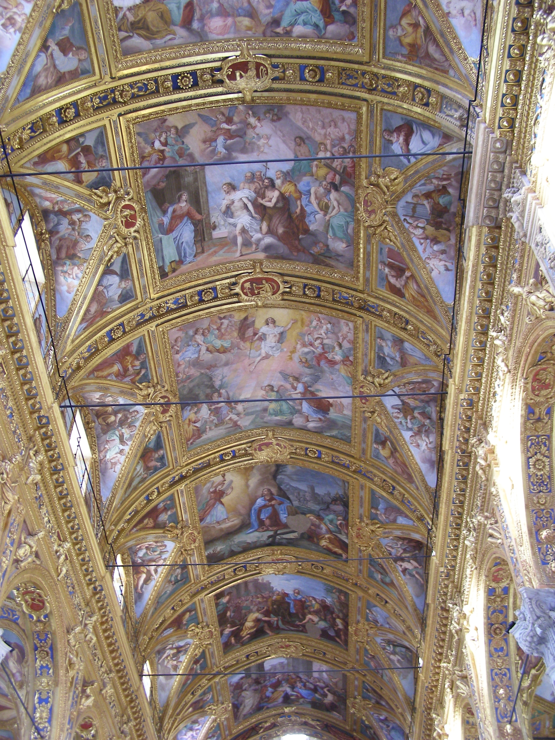 Genoa - church of the Annunciation of Virgin Mary